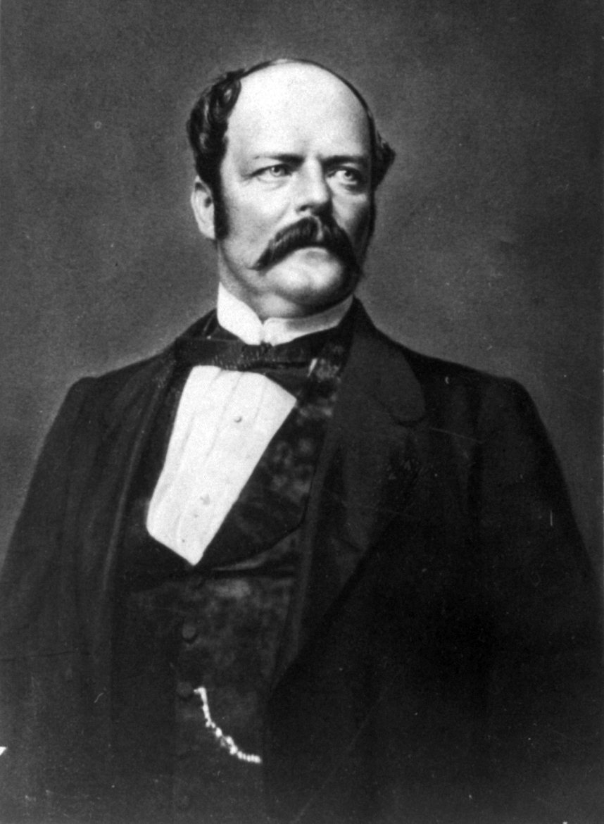 Lewis Washington, a hostage of abolitionist John Brown's raid on Harpers Ferry, Virginia. Also a great-grandnephew of George Washington.